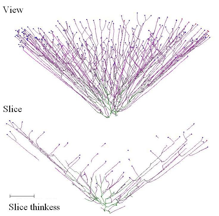 Development of the cone-like structure using the Neighbour_Sensing model of the fungal morphogenesis. Created and uploaded by Audrius Meškauskas.